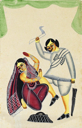 "A Kalighat image of the moment when the government clerk, Nabin, stands poised to behead his wife Elokeshi with a fish knife. Wearing a burgundy sari against yellow skin tones, Elokeshi kneels before her husband with her face turned away and hand raised to ward off the blow. The black 'holdall' used by the painters to illustrate one of Nabin's westernised accessories lies on the ground in front of Elokeshi whilst the umbrella, a further western attribute, hangs limply from his left hand."